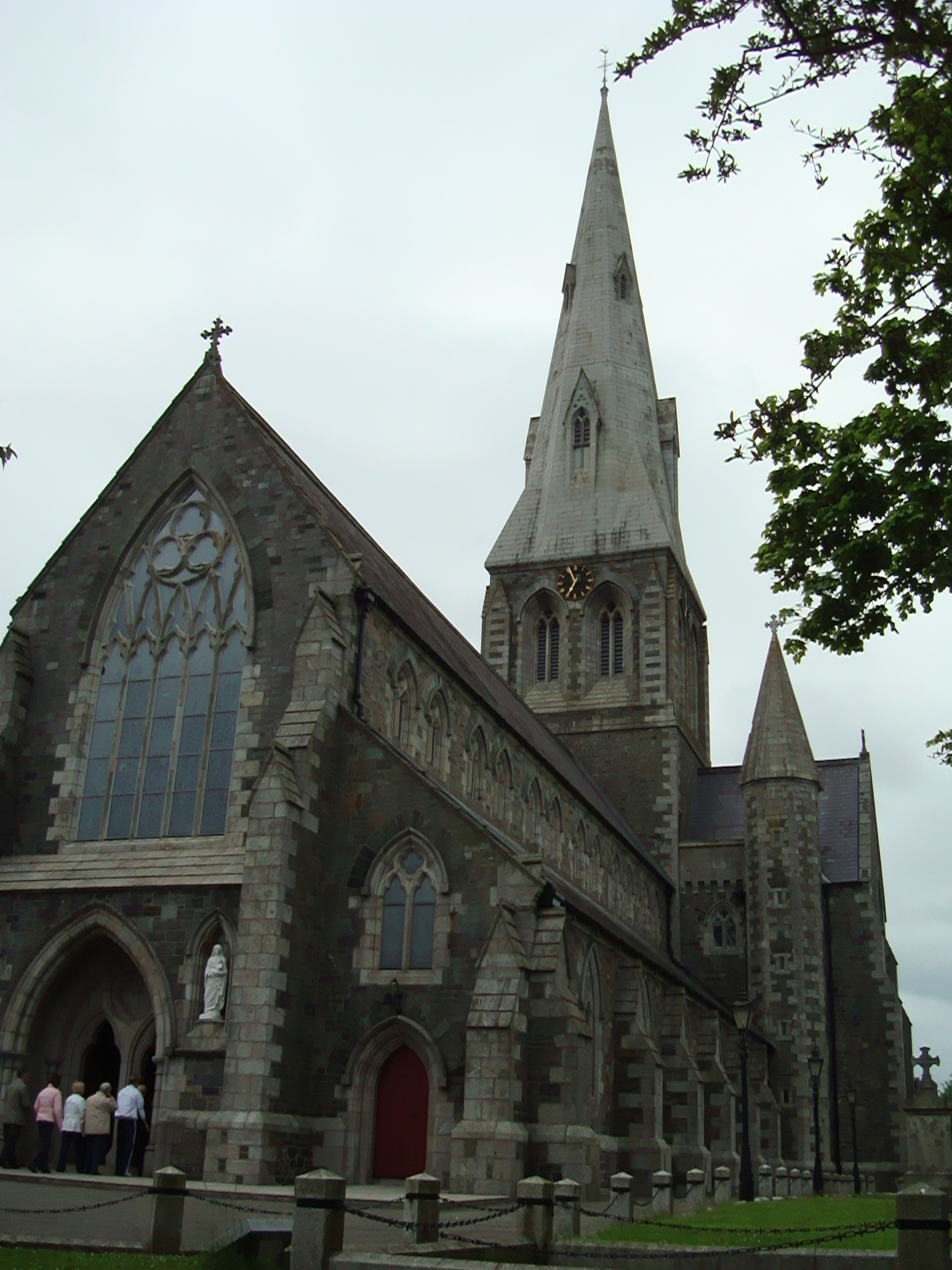 Photograph of St Aidan's Cathedral, Enniscorthy, Co. Wexford, Republic of Ireland